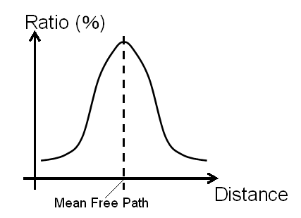 Figure to explain MeanFreePath